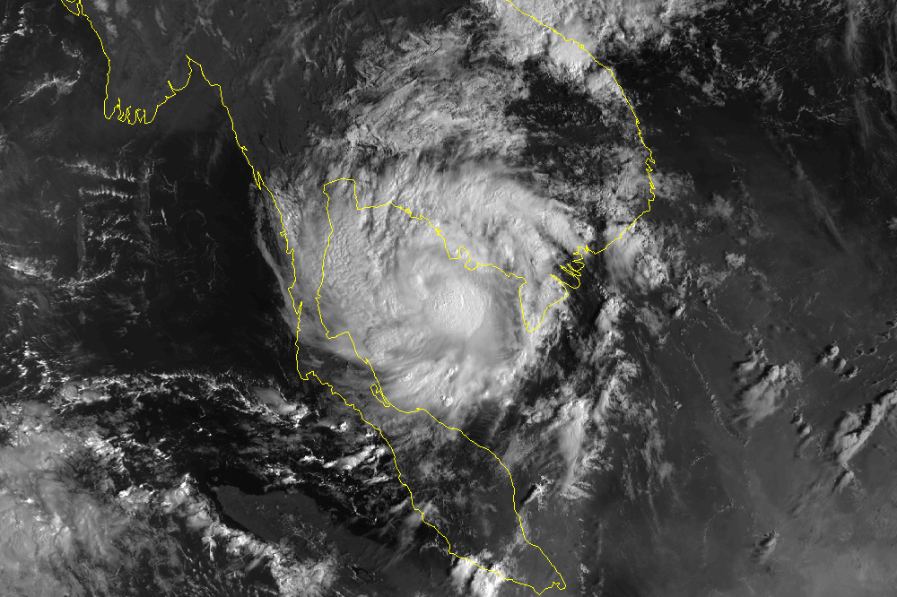 Typhoon Linda in the Gulf of Thailand in early November 1997